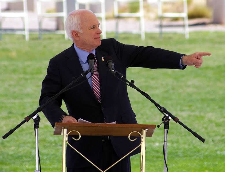 Sen. John McCain speaks at Albuquerque Memorial day event. He is wearing a purple heart.